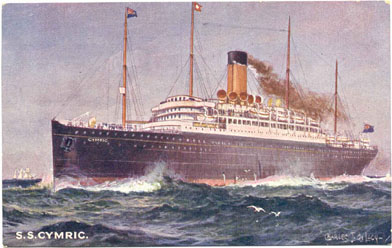 White Star Line's Cymric, postcard